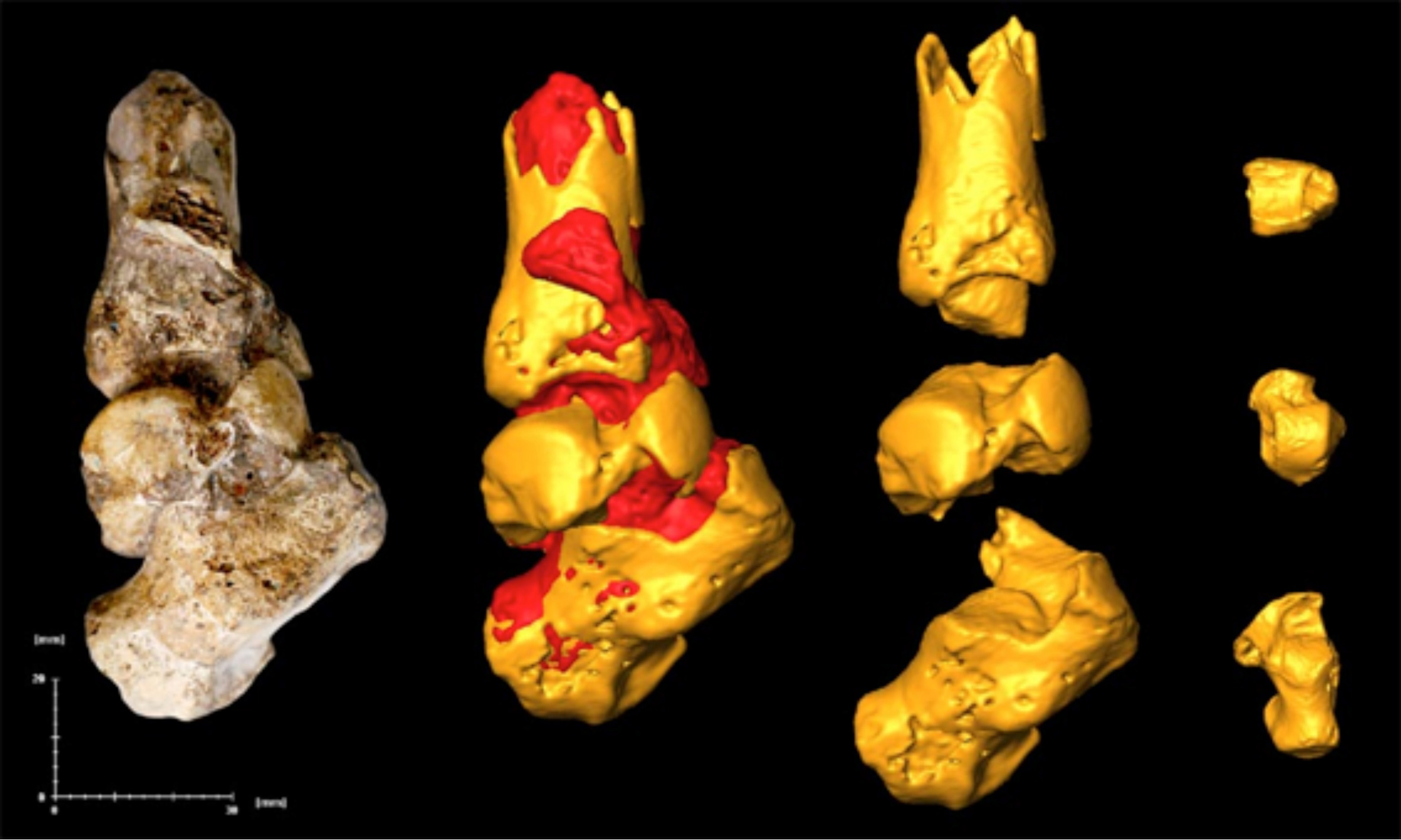 Ankle of Australopithecus sediba. Red is adhering matrix. Image created by Kristian Carlson, courtesy of Lee R. Berger and the University of the Witwatersrand.